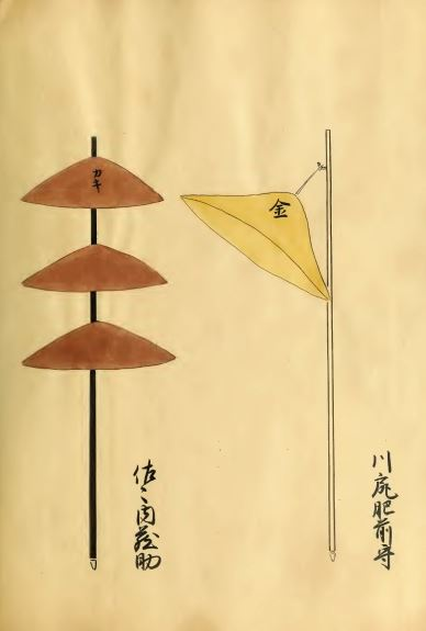 Kawajiri Hidetaka Battle Standard (gold hanging hat); Sassa Narimasa Battle Standard (persimmon-orange triple hat)